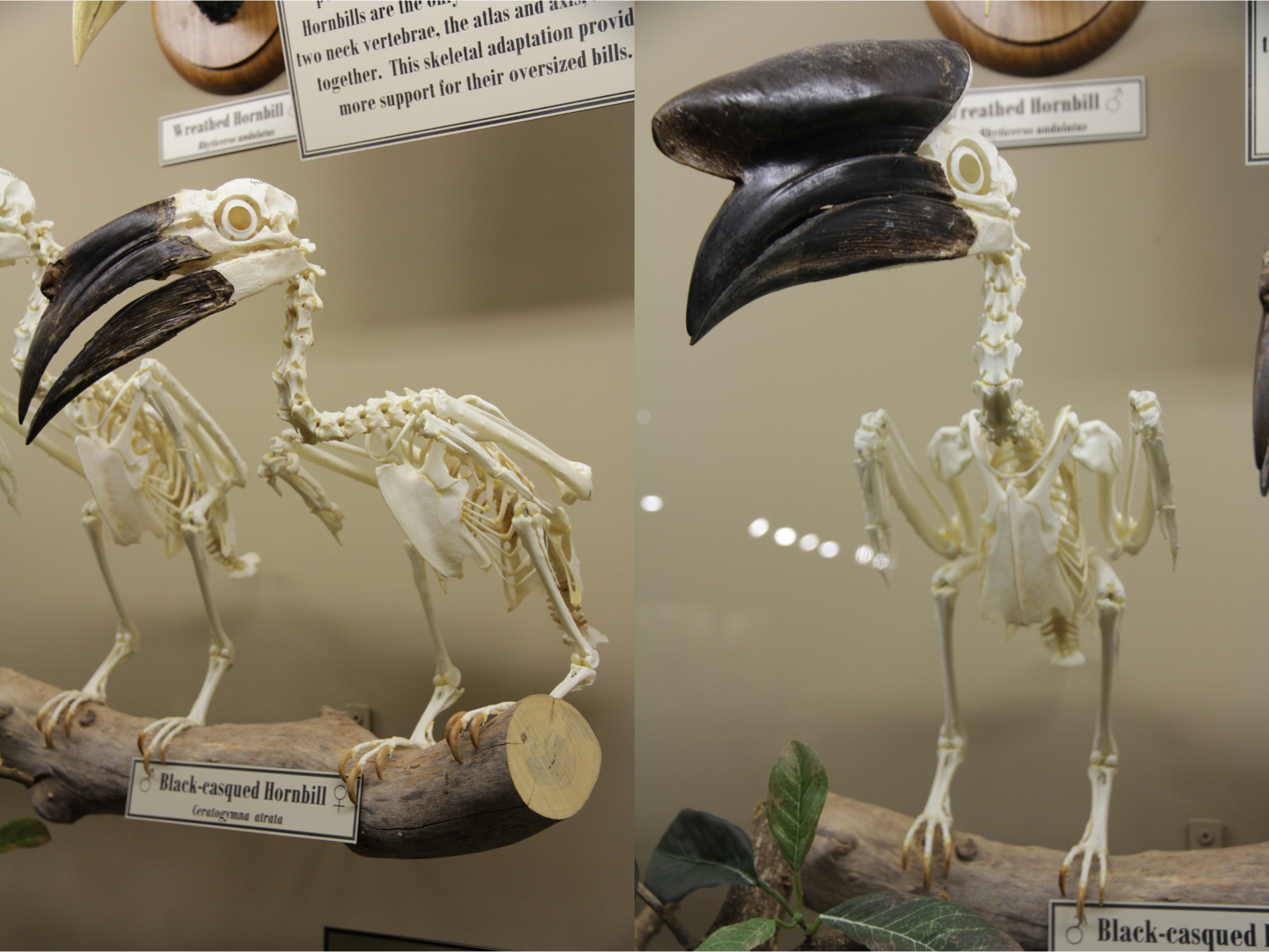 Image of a male and female black-casqued hornbill skeleton. Shows the sexual dimorphism present in the species. On display at the Museum of Osteology.